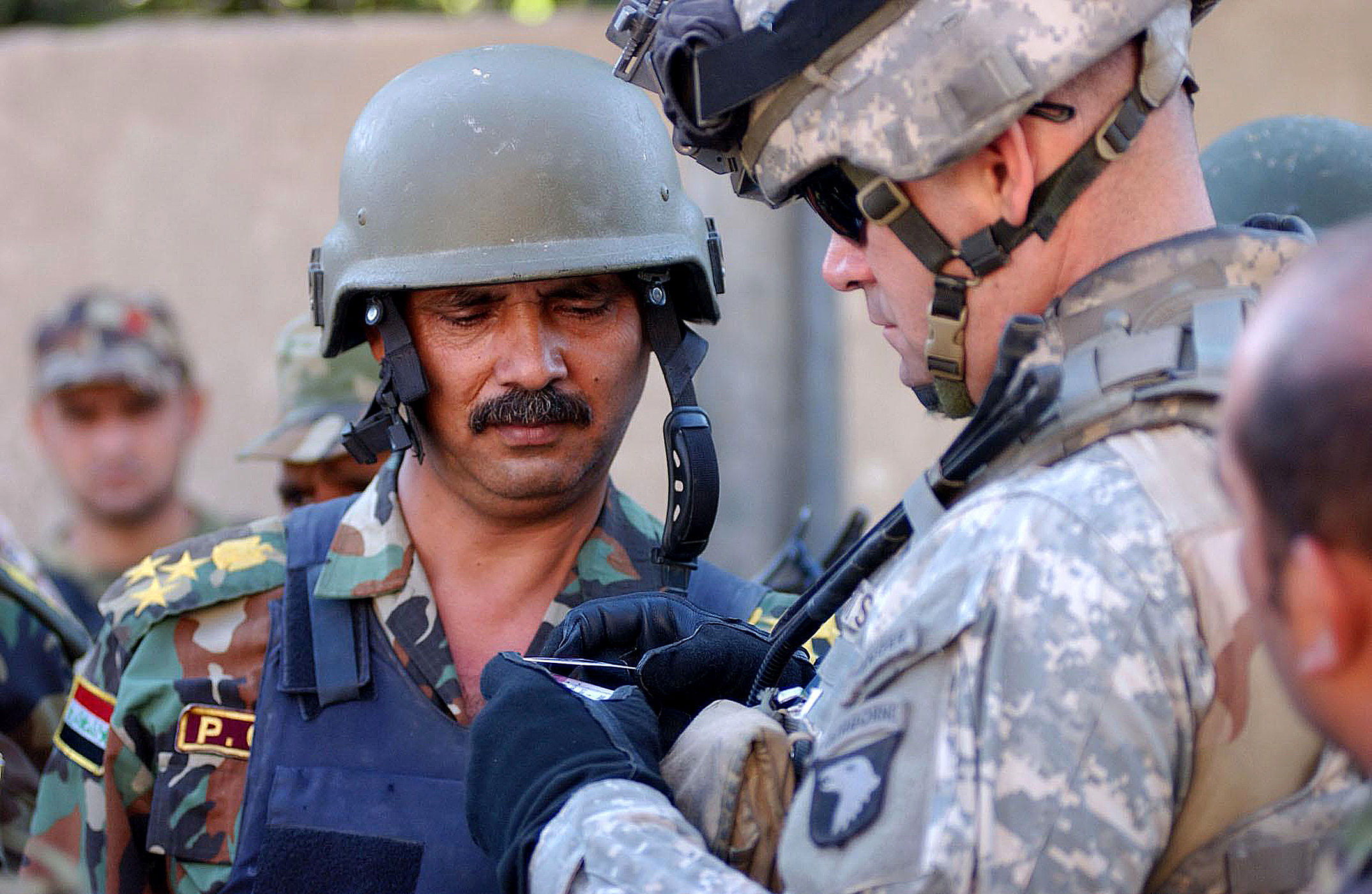 CHECKING IDS "Brig. Gen. Ra'ad, 6th Brigade, 2nd National Police Division, and Lt. Col. Gregory Butts, commander, 2nd Battalion, 506th Infantry Regiment, examine false identification cards found on an individual carrying a large amount of U.S. dollars who was trying to evade the cordon in Baghdad, Iraq, Oct. 17, 2006. U.S. Marine Corps photo by Staff Sgt. Brent Williams"